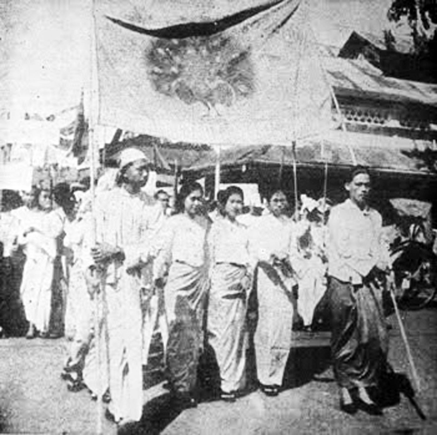 1938 Dobama protest in Rangoon by students, which is now commemorated at National Day (9 December).